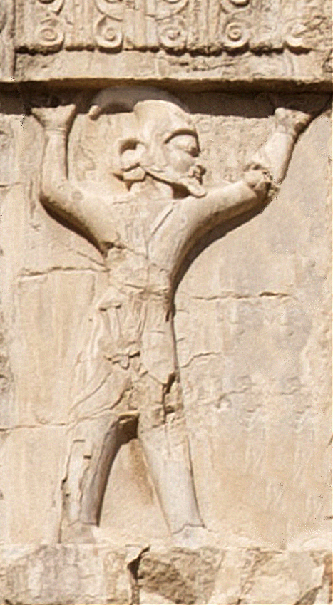 Xerxes tomb Saka Trigraxauda